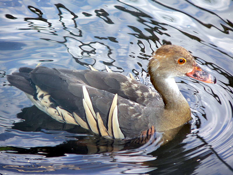 Plumed whistling duck (Dendrocygna eytoni)